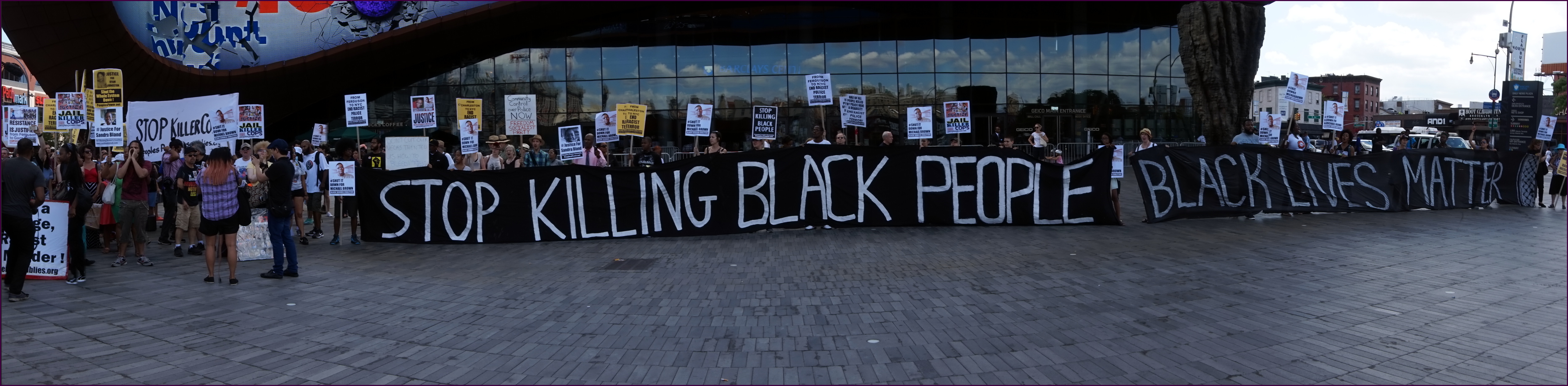 BlackLivesMatter Barclays Centre, Brooklyn